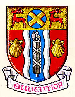 Arms of the Borough of Watford in Hertfordshire, England. Blazon: Gules on a Pale wavy Argent between two Escallops Or a Pallet wavy Azure charged with a Fasces erect of the second on a Chief of the third a Hurt charged with a Saltire also of the third between two Harts statant of the first.